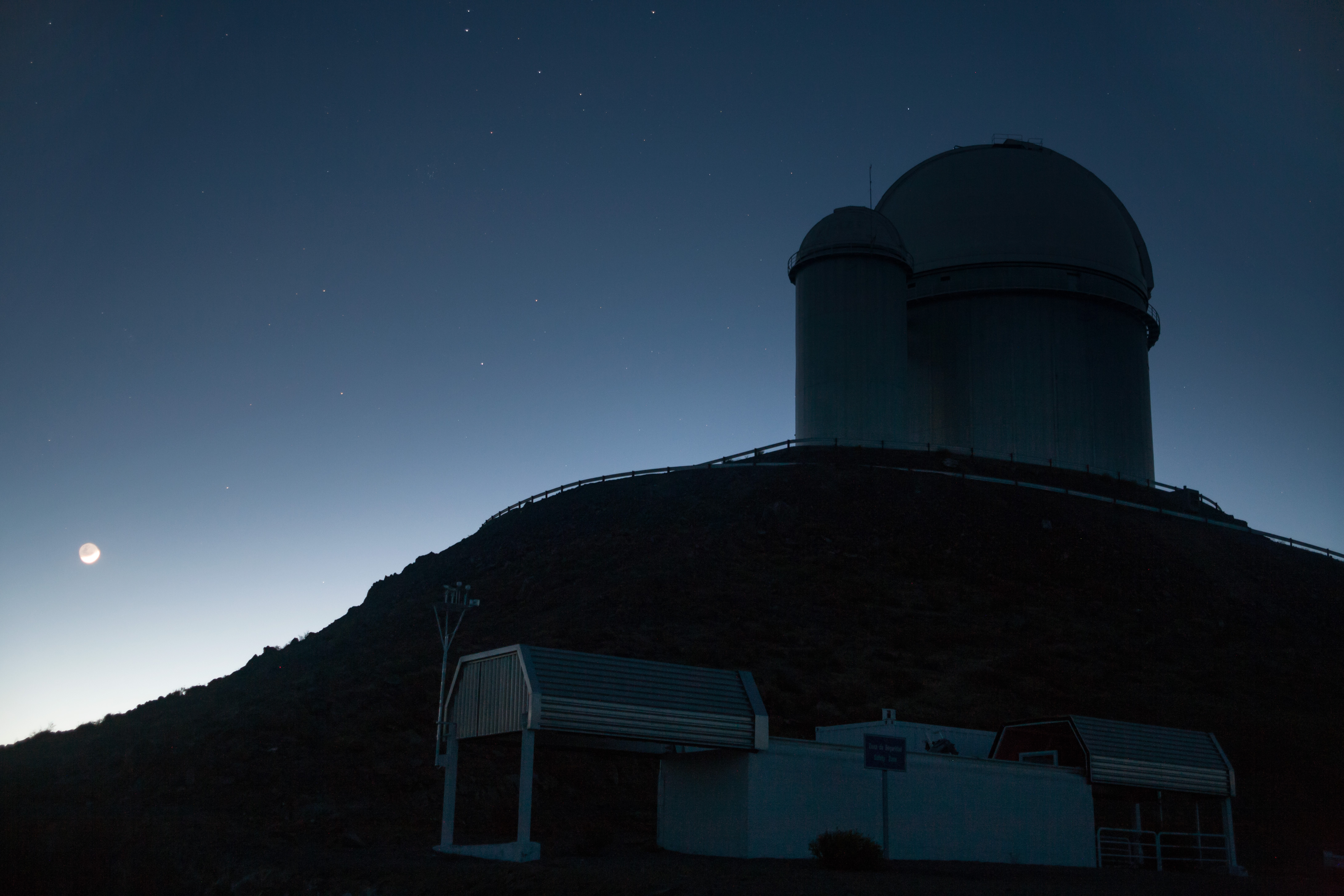 The transition from night to day is captured in this new photograph of ESO's La Silla Observatory. The Moon hangs low to the left of this image, diluted by the morning Sun. This image, taken by ESO Photo Ambassador Alexandre Santerne captures ESO's 3.6-metre telescope on the top right. The telescope, which is located 2400 metres above sea level and is here silhouetted by the shadows of dawn, was inaugurated in 1976. It currently operates with the HARPS spectrograph, the most prolific exoplanet hunting machine in the world. La Silla is ESO's first observatory. Inaugurated in 1969 it is located 600 kilometres north of Santiago at the edge of the Chilean Atacama Desert. La Silla was the largest astronomical observatory of its time, leading Europe to the front line of astronomical research. As illustrated in this image, the skies above La Silla provide crystal clear conditions for astronomical viewing with over 300 clear nights a year. Dotted with distant stars, this is a window onto the vastness of the Universe for ESO's telescopes.